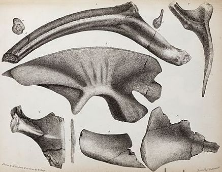 Plate XLIII of ribs, pelvis and scapula of Megalosaurus drawn by Mary Morland, from William Buckland's "Notice on the Megalosaurus or great Fossil Lizard of Stonesfield". Transactions of the Geological Society of London, series 2, vol 1: 390 -396. A monumental year in paleontology seeing (in this volume) both Buckland's first scientific description of a dinosaur, Megalosaurus, and Conybeare's first validation of long necked Plesiosaurs and scientific reconstructions of Plesiosaurs and Ichthyosaurs. Mary Moreland who drew these plates would later become Rev. Buckland's wife. These were some of the very few bones from which Richard Owen would base his reconstruction of Megalosaurus for Waterhouse Hawkins' Crystal Palace reconstructions in 1854.- artist Mary Buckland, née Morland (1797-1857), British palaeontologist